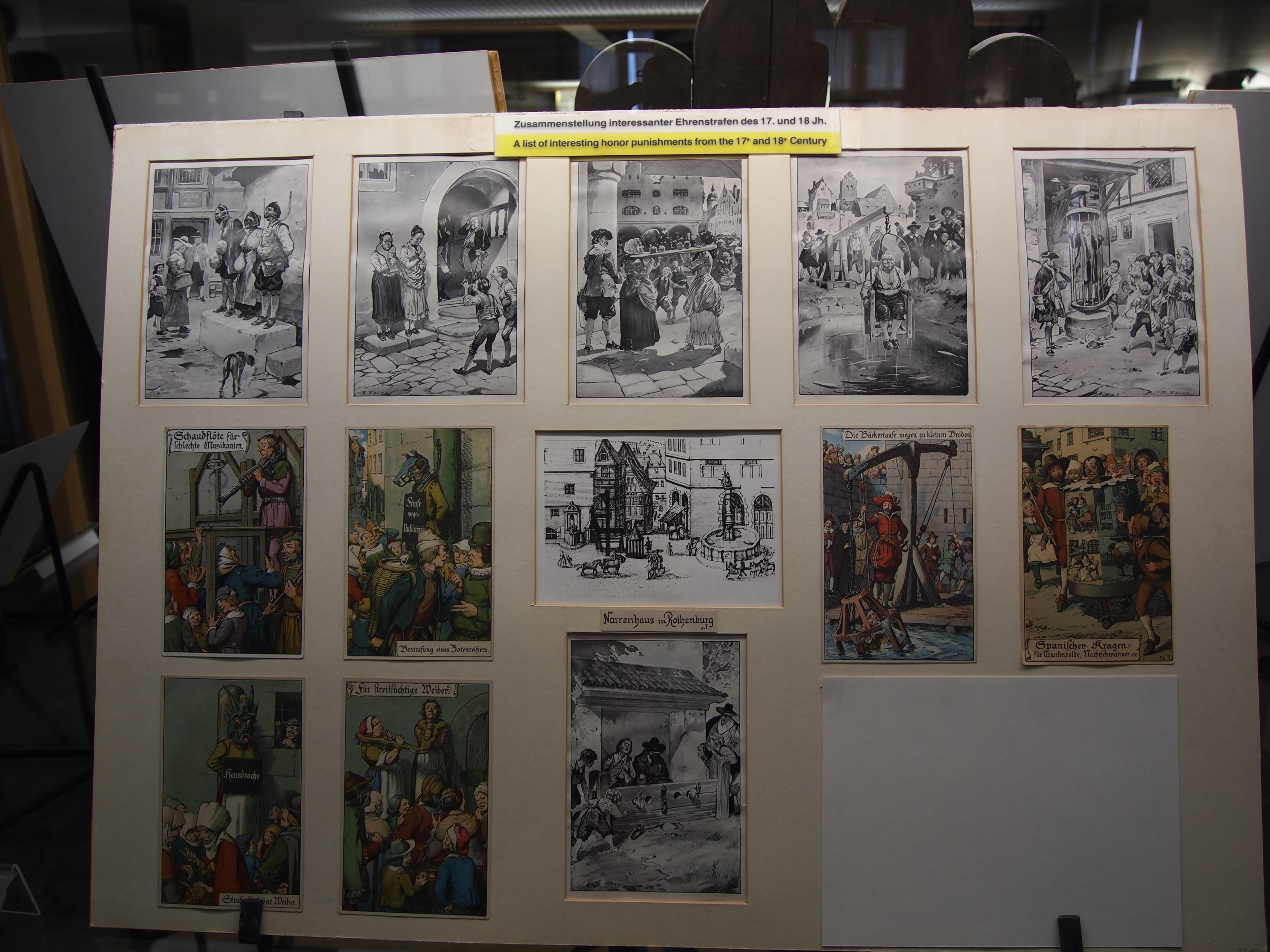 kriminalmusium